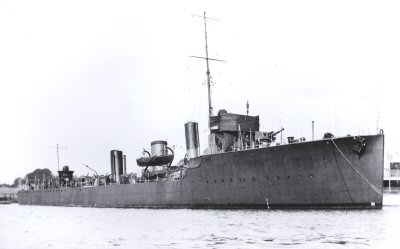 HMS Hardy in 1912, this was taken in 1912 and we believe the author was likely deceased by 1947, therefore we believe this is in the public domain.